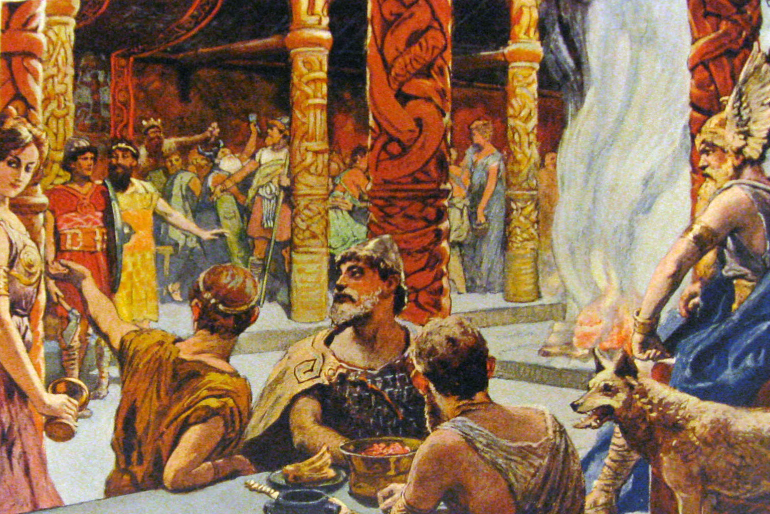 Einherjar are served by Valkyries in Valhöll while Odin sits upon his throne, flanked by one of his wolves.